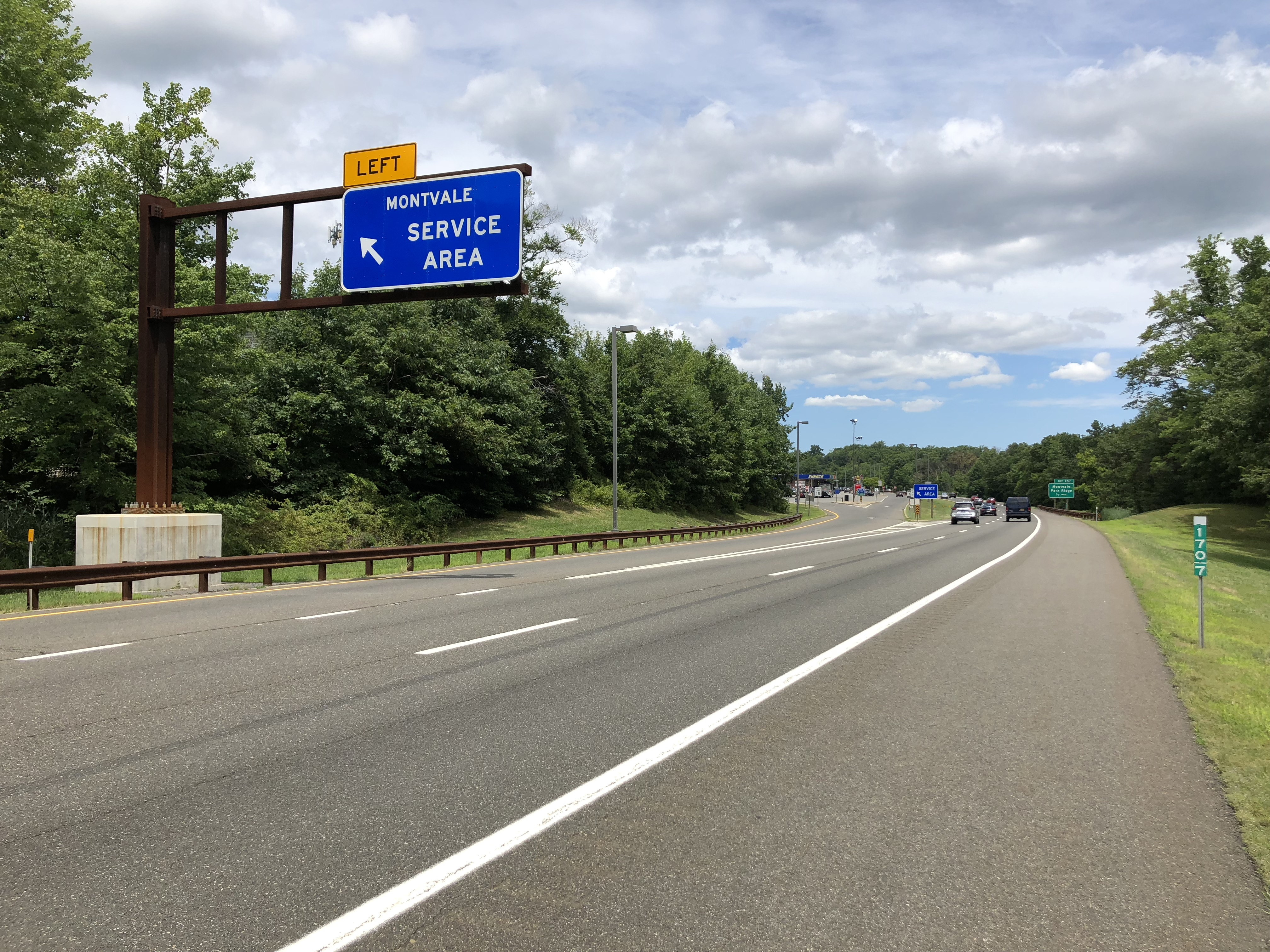 View north along New Jersey State Route 444 (Garden State Parkway) at the entrance to the Montvale Service Area in Montvale, Bergen County, New Jersey